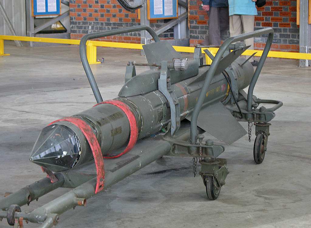 A de Havilland Firestreak air-to-air missile photographed at RAF Elvington on the 16 of August 2007 by Brian Burnell.